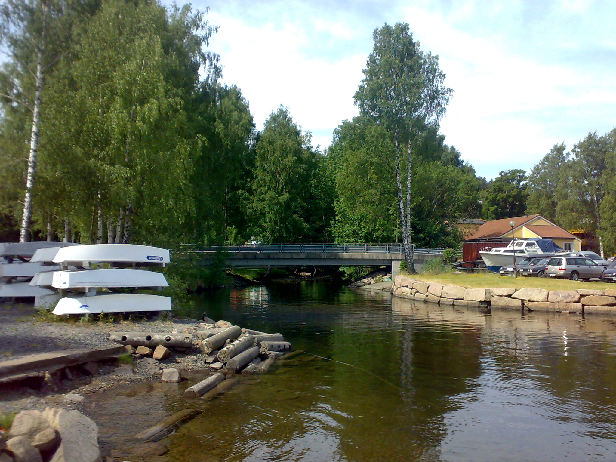 Saetreelva Sætreelva Hurum Norway